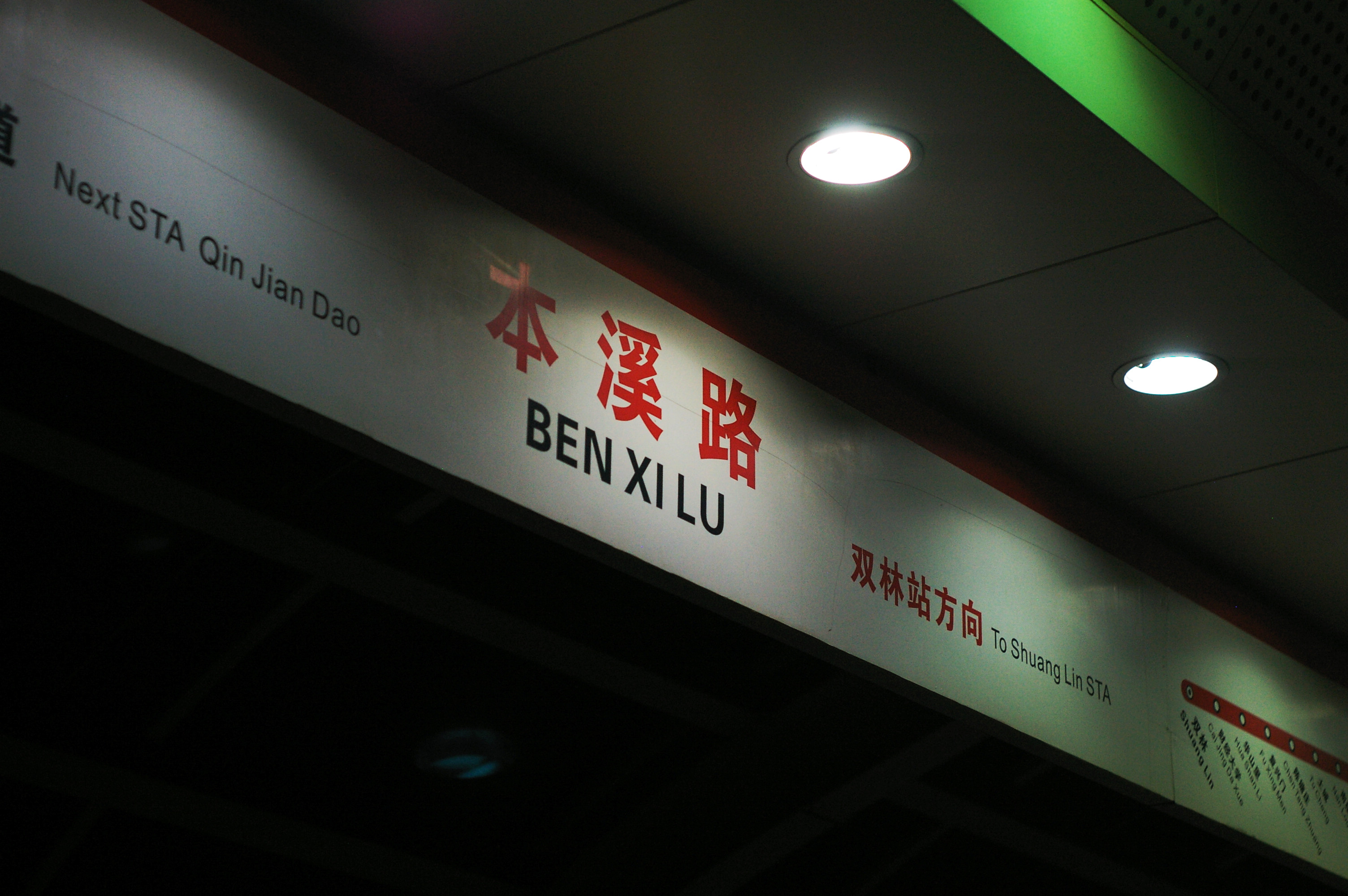 benxilu station